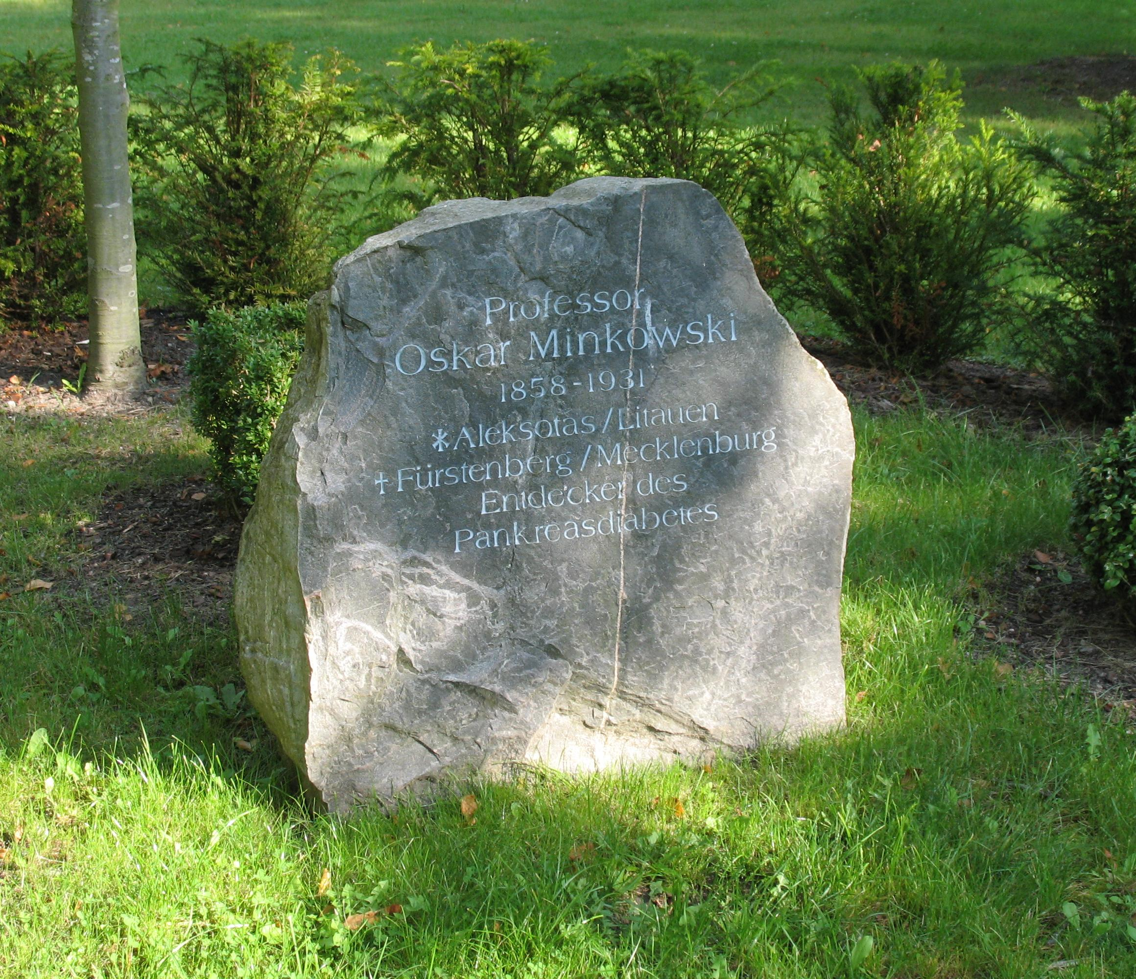 Memorial stone to Oskar Minkowski in Fürstenberg in Brandenburg, Germany